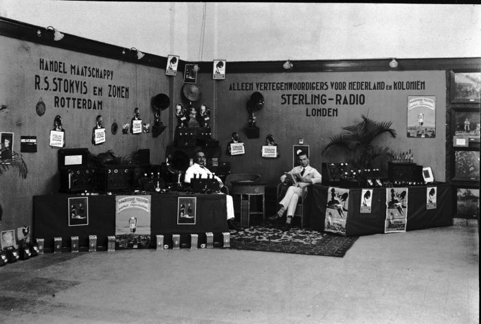 The stand of the R.S. Stokvis and Sons company at the Trade Fair in Bandung